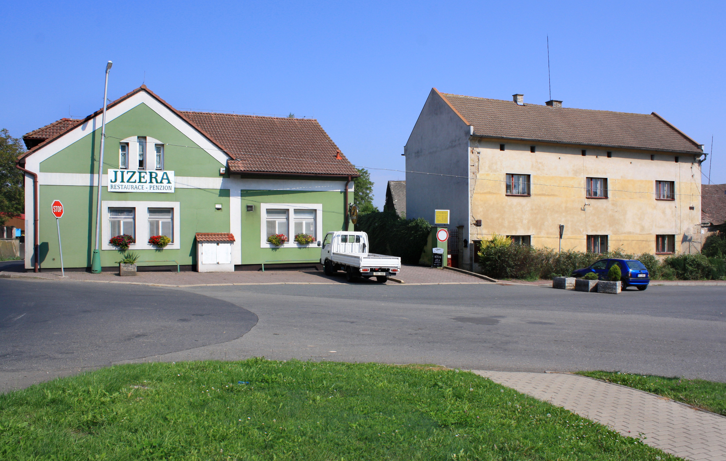 Restaurant in Jizerní Vtelno, Czech Republic